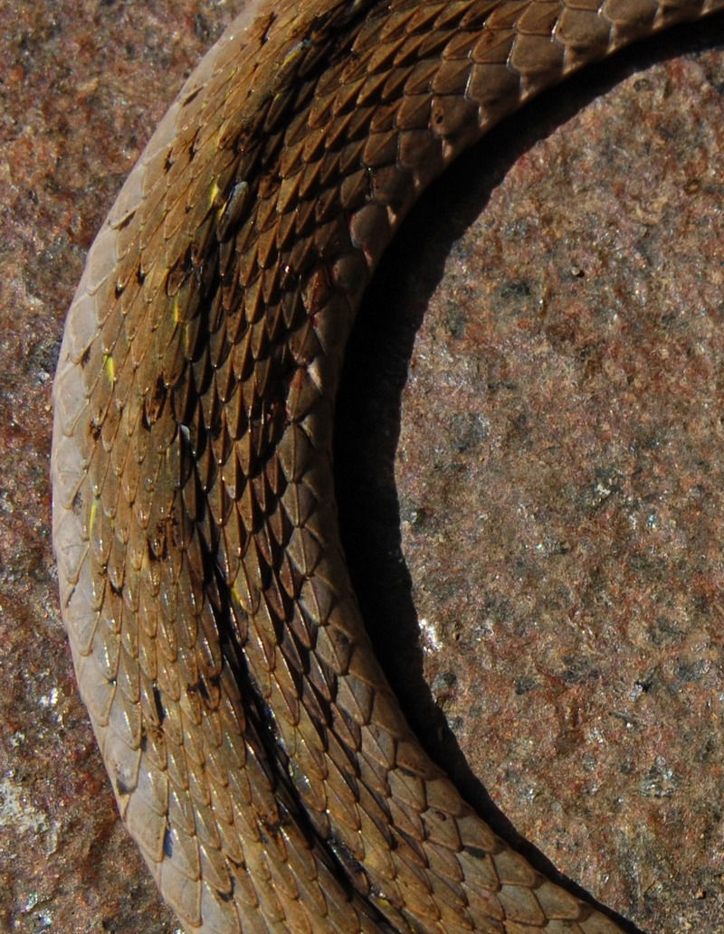 Rhabdophis subminiatus, keeled dorsal scales. From Darmaga, Bogor, West Java, Indonesia